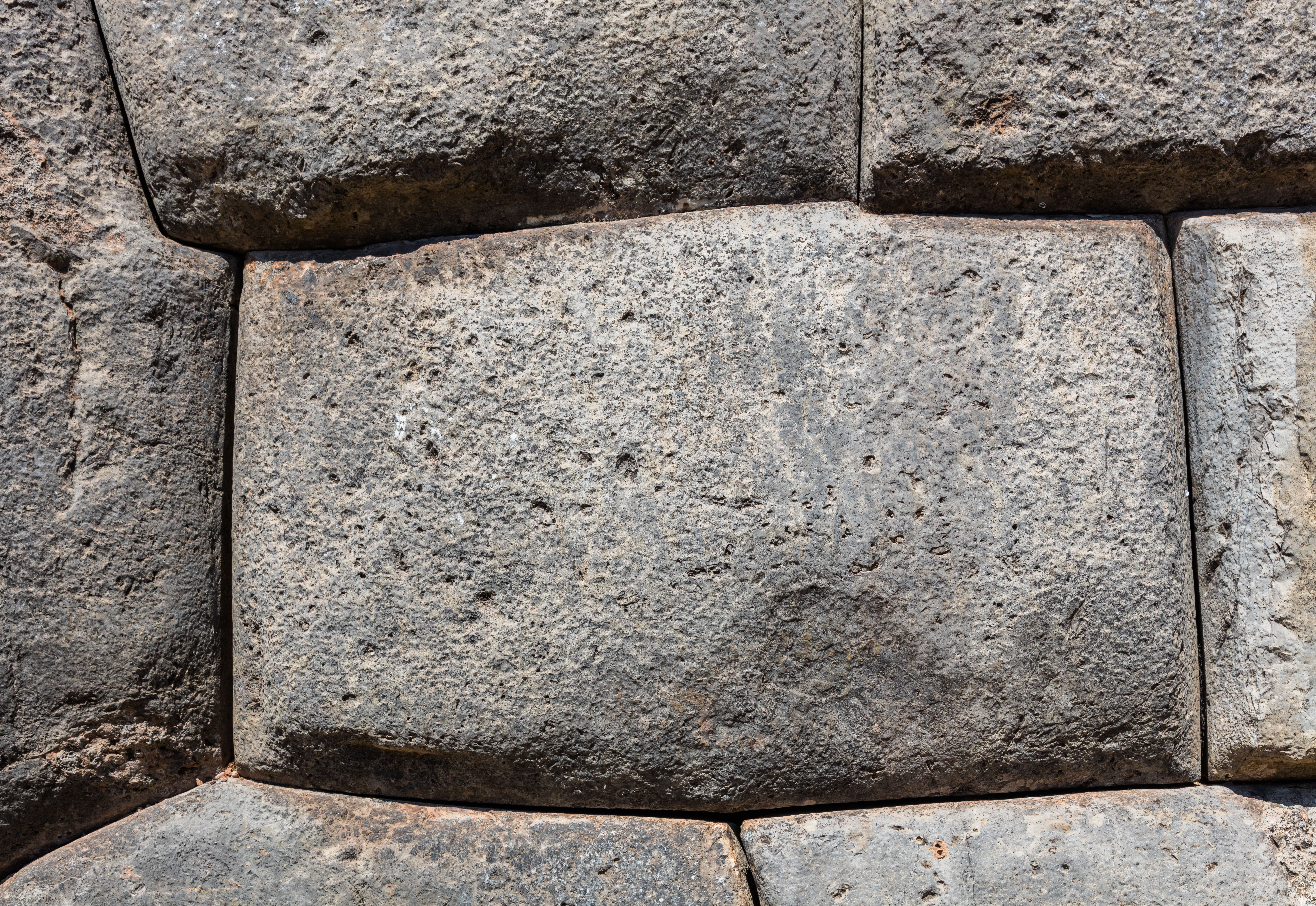 Sacsayhuamán, Cusco, Peru